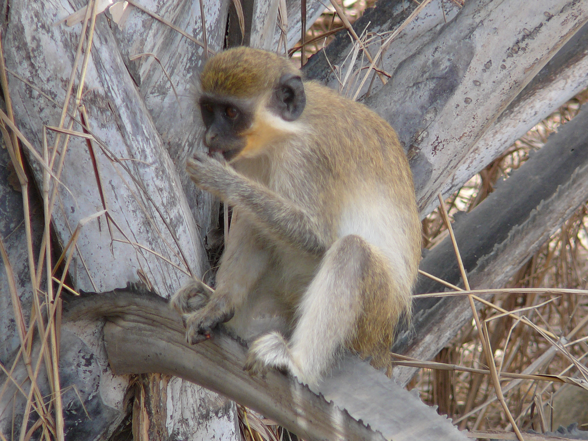 Green Monkey